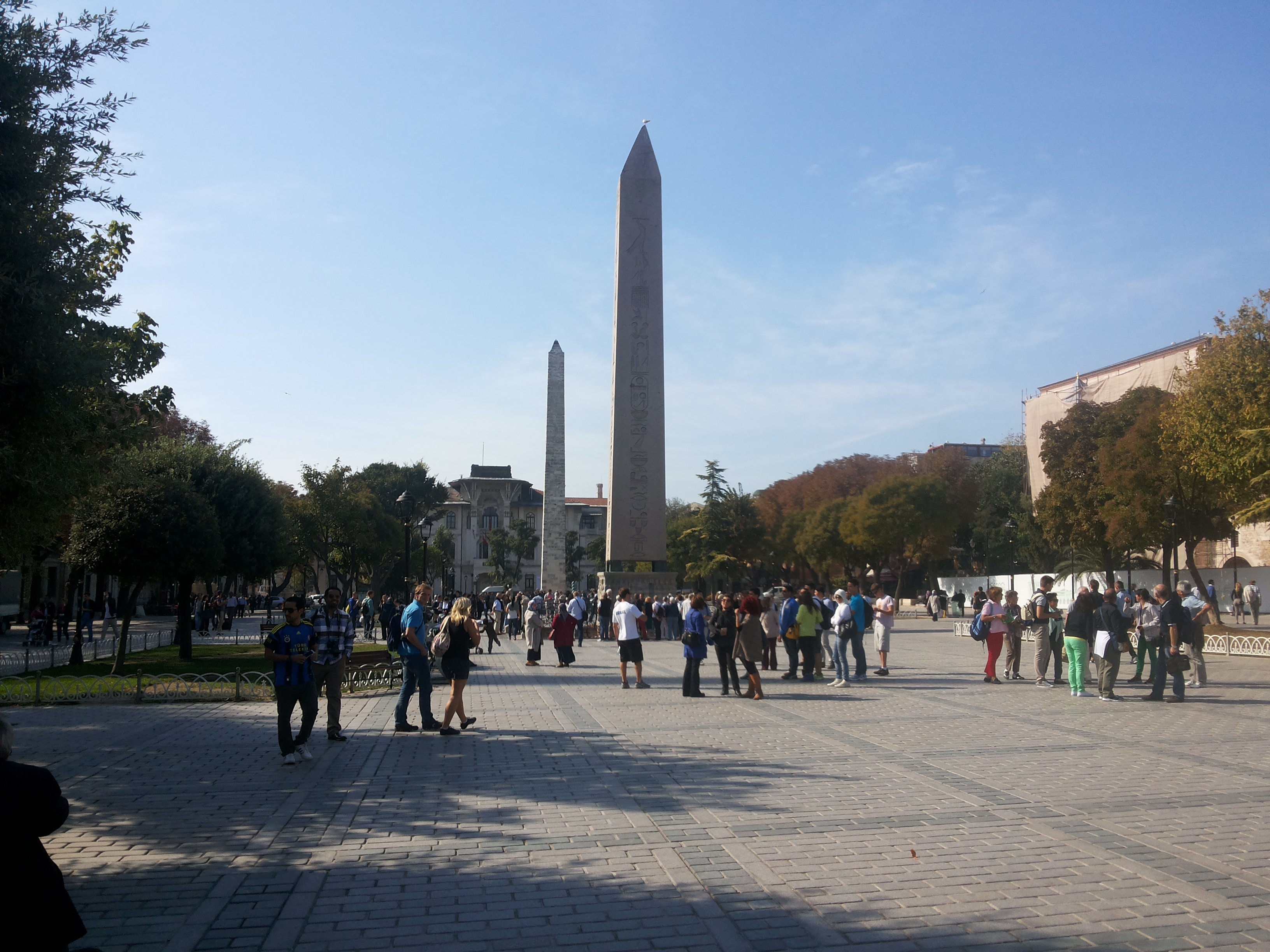 Egyptian obelisk at Sultan Ahmet, Istanbul, Turkey